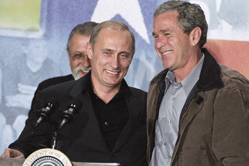 TEXAS. Vladimir Putin visiting a public school in Crawford with US President George Bush.